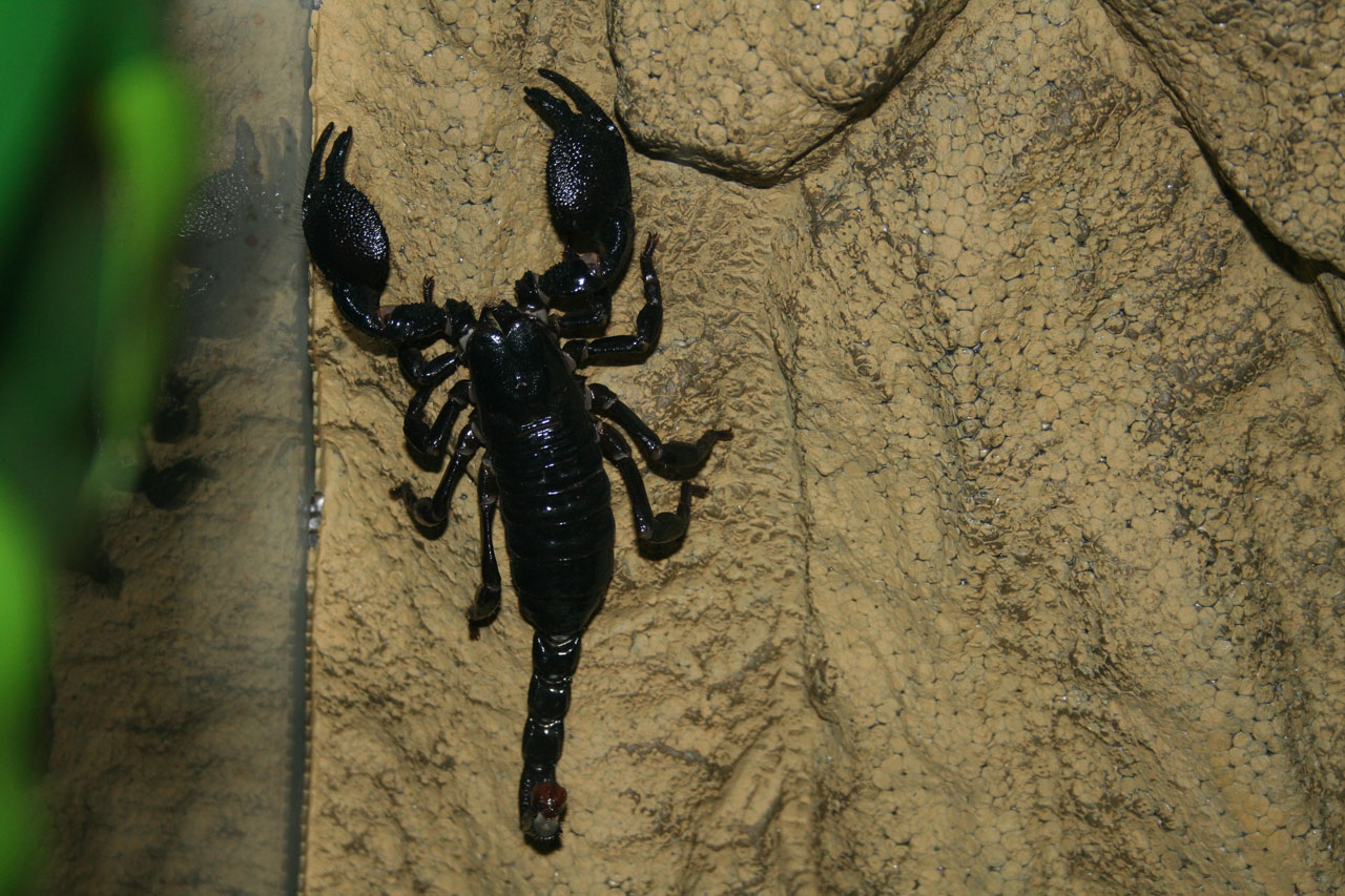 Emperor scorpion; Photographer: Axeblokie